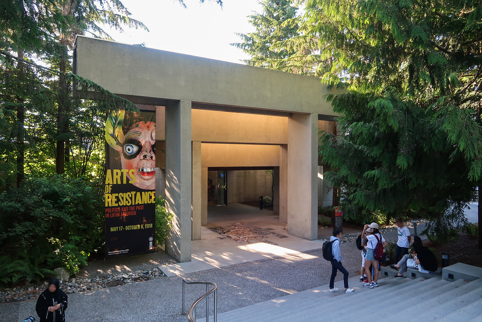 UBC Museum of Anthropology